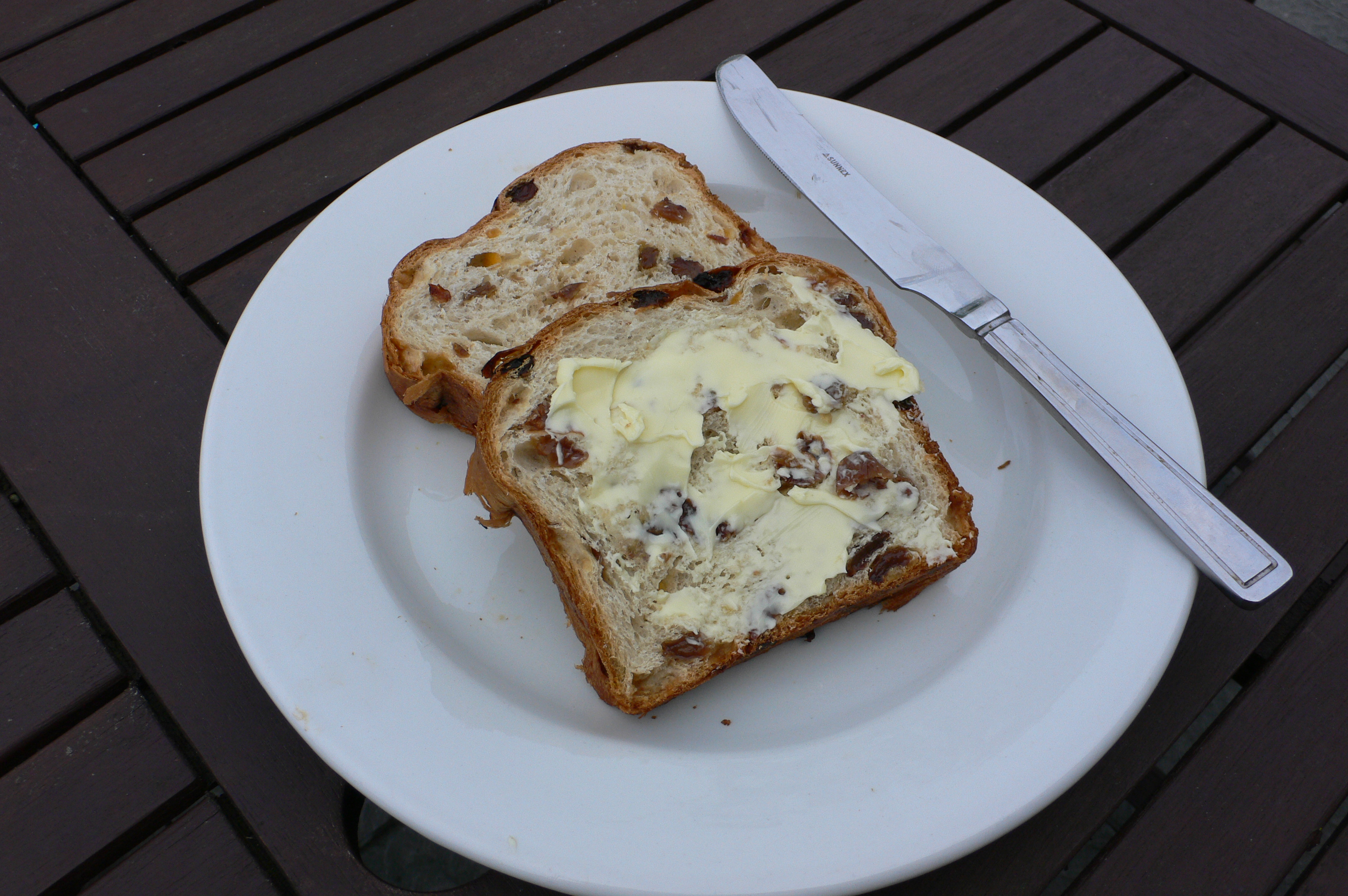 Guernsey Gâche This photo may be used including for commercial purposes on condition that you link to